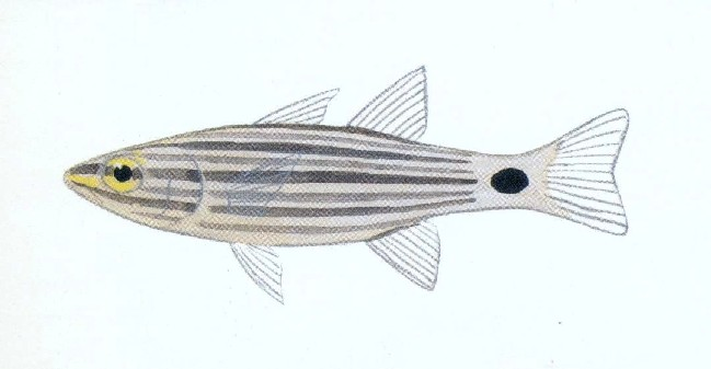 Cheilodipterus artus. Tempera on paper